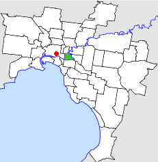 Location of the City of Richmond within Melbourne.